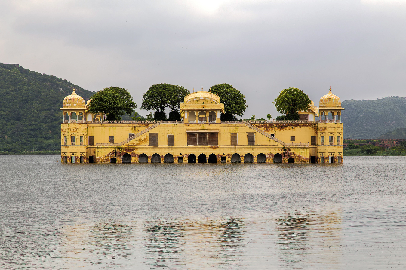 Palace located in the middle of the Man Sagar Lake in Jaipur city